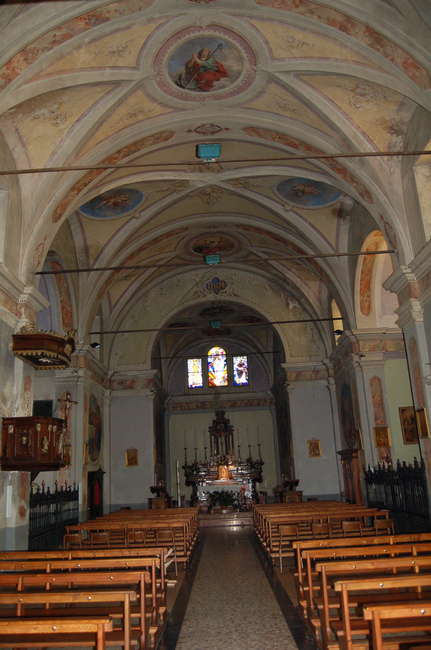 Baruffini chiesa san pietro martire Tirano Sondrio